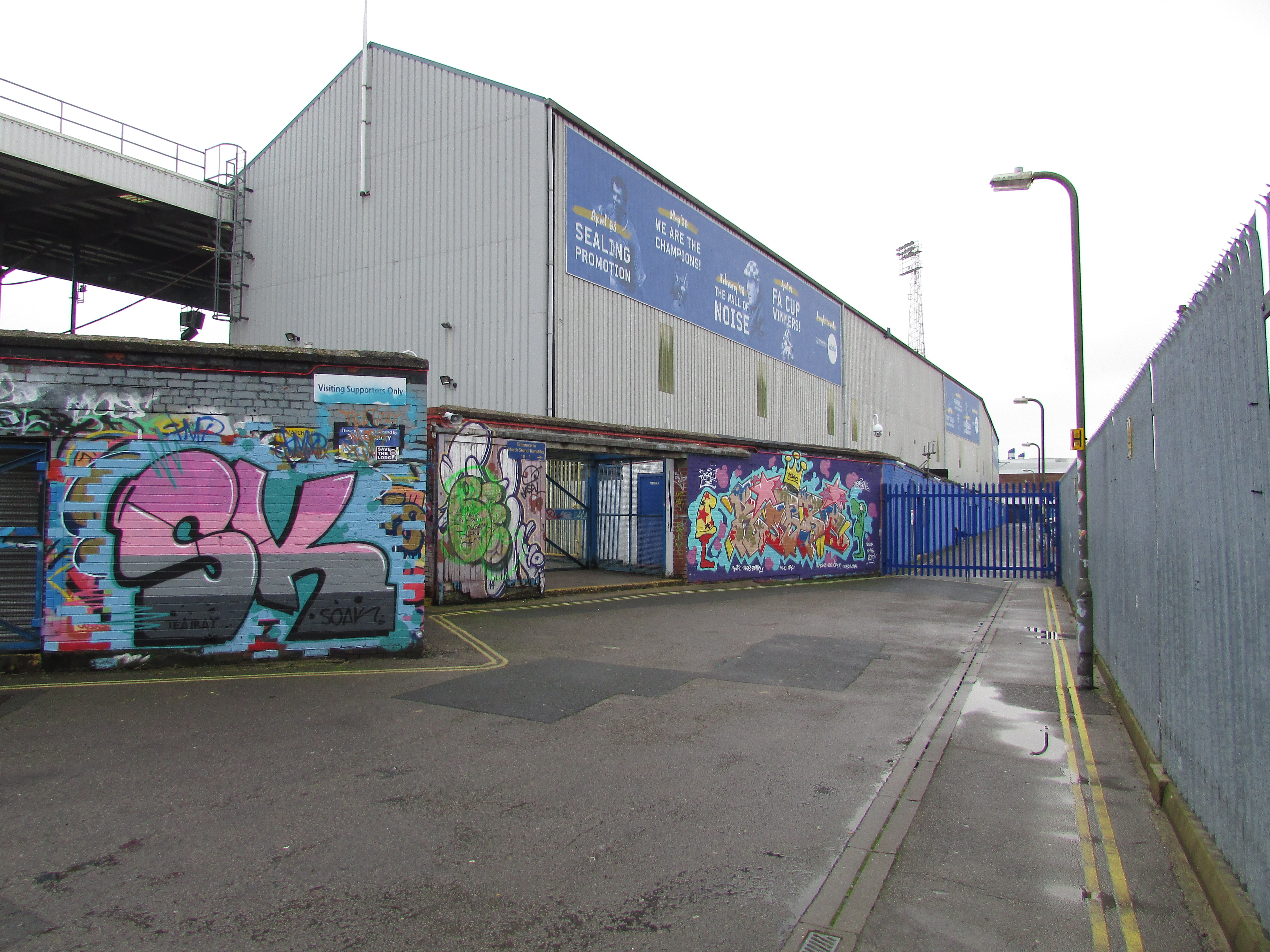 The north east corner of Fratton Park and the North grandstand. Fratton Park is the home of Portsmouth Football Club (nickname Pompey). Pompey boasts the most honours of any football club south of London, most notably Football League Champions in 1948-49 and 1949-50, and F.A.Cup Winners in 1939 and 2008. The football club is in the city of Portsmouth in the English county of Hampshire in England.